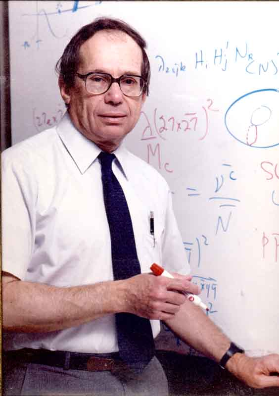 This is a picture of Richard Arnowitt in 2004 when he became a distinguished professor in the College of Science at Texas A&M University.